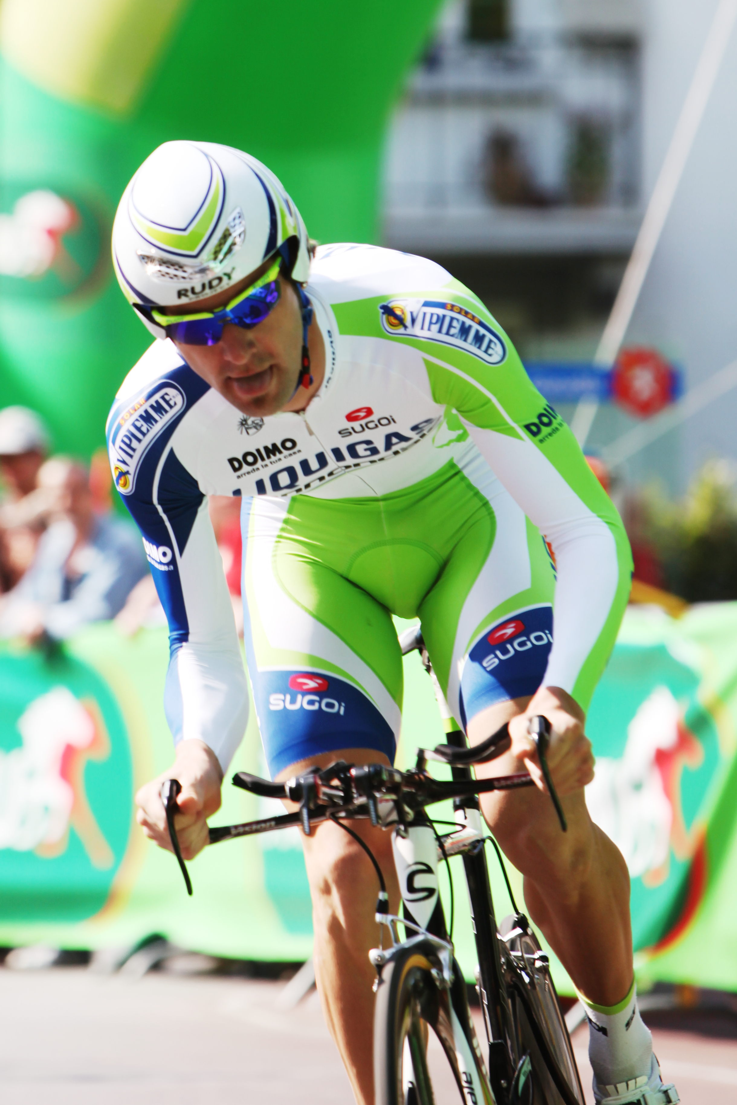 Fabio Sabatini at the prologue of the Tour de Romandie 2011